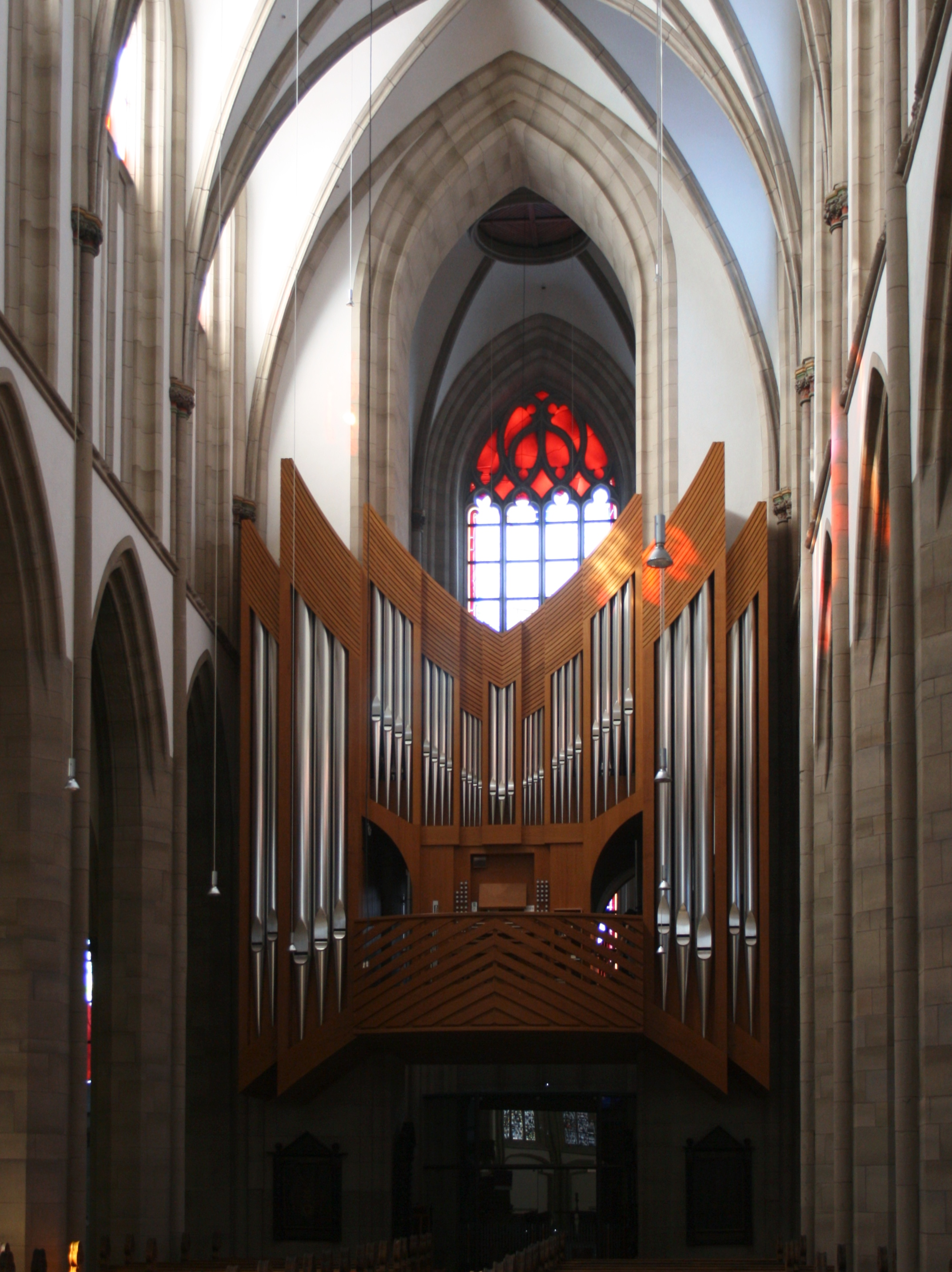 Duisburg, Germany: Church St. Salvator, nave towards west.